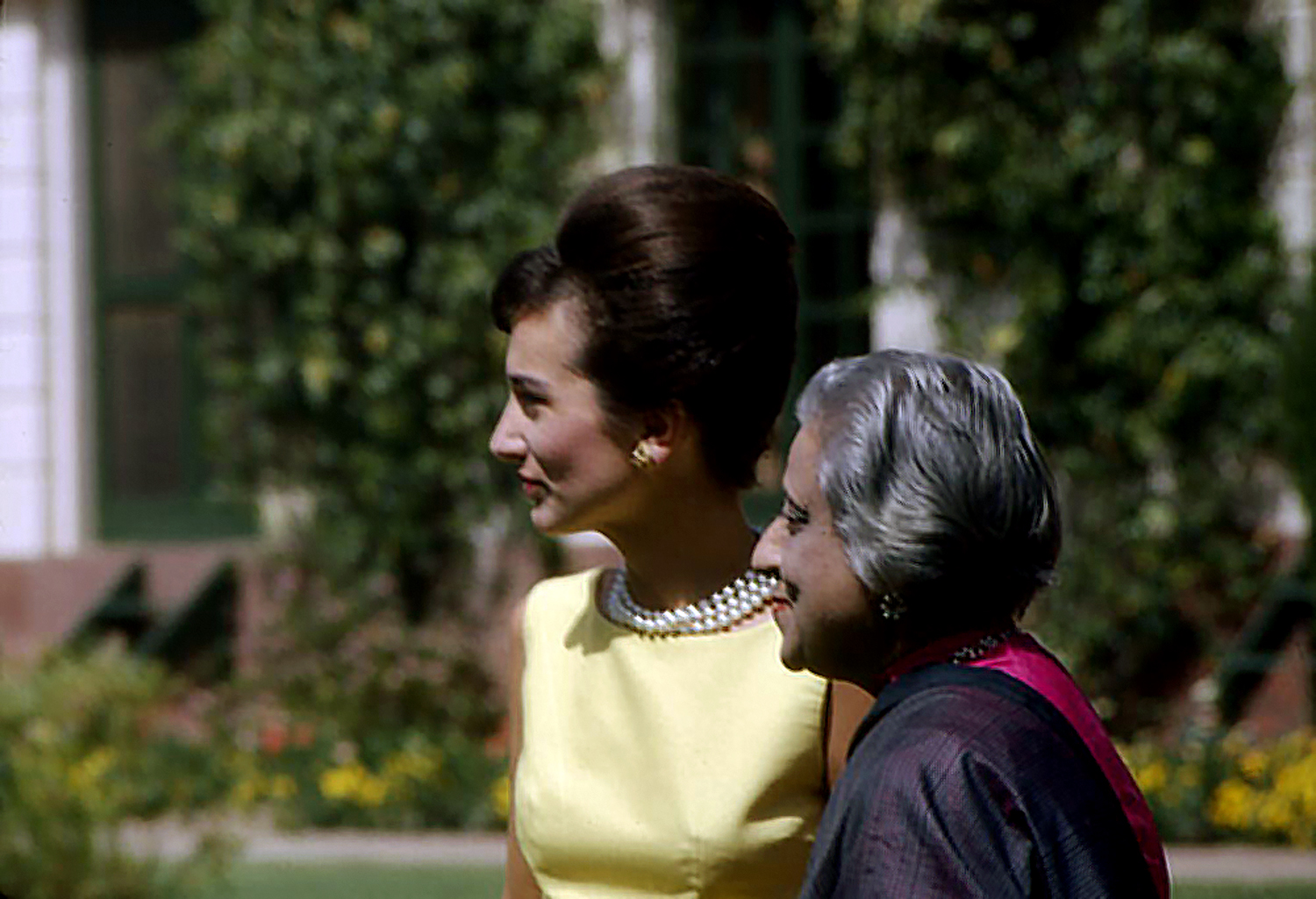 "Princess Lee Radziwill of Poland (left), sister of First Lady Jacqueline Kennedy, stands with Krishna Hutheesing, sister of Prime Minister Jawaharlal Nehru of India, at the Prime Minister’s residence, Teen Murti Bhavan, in New Delhi, India."